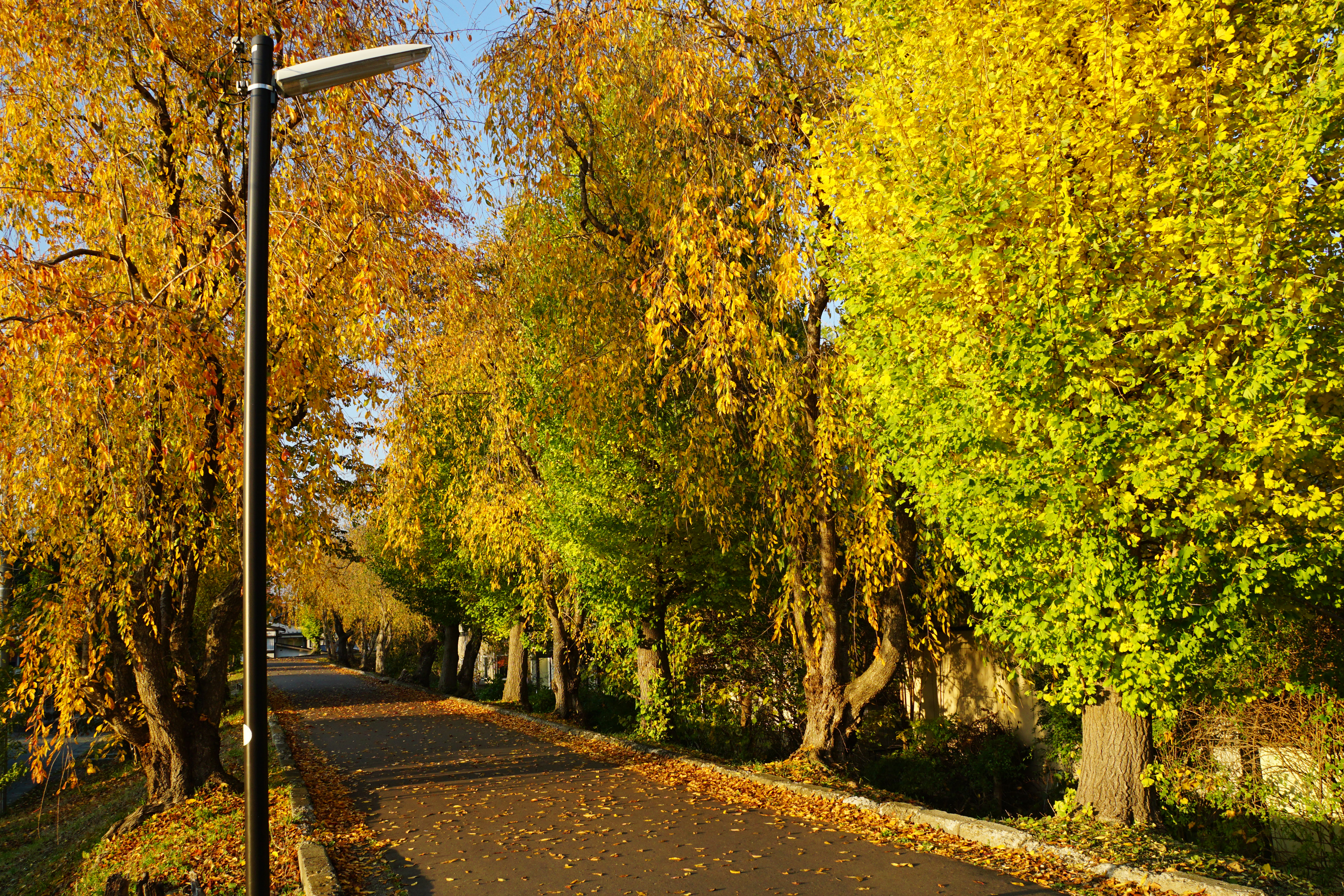 Iwate_University in Morioka, Iwate prefecture, Japan